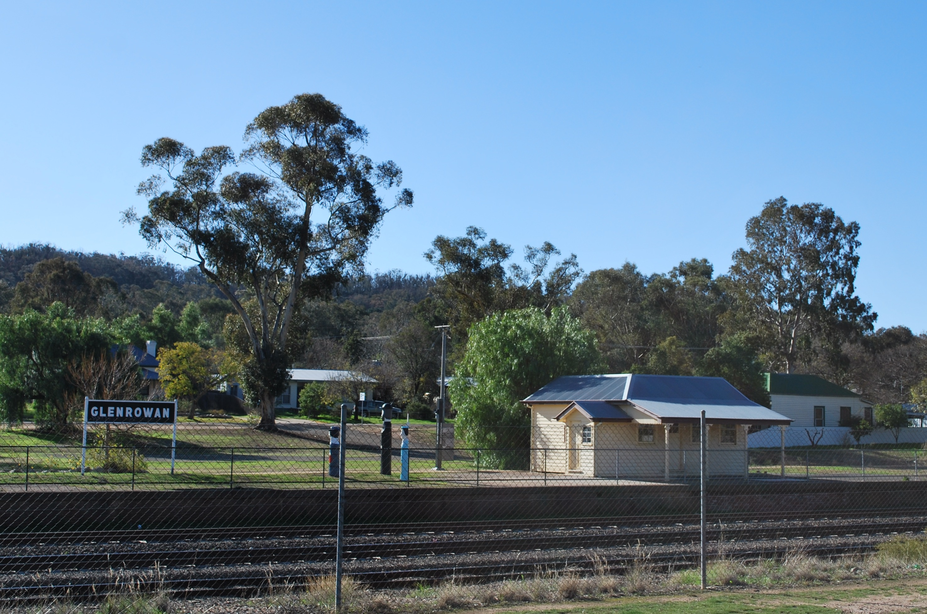 Train station at Glenrowan, Victoria